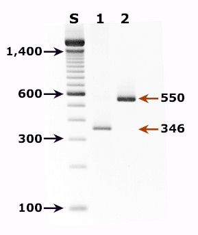 Agarose gel (2%) analysis of PCR-amplified products from DNA extracted from a bronchoalveolar lavage (BAL) diagnostic specimen of a patient with pulmonary symptoms. * Lane S: Molecular base pair standard (100-bp ladder). Black arrows show the size of standard bands. * Lane 1: Single step PCR amplification with the pAZ102-E/pAZ102-H primer pair1 - diagnostic band size: 346 bp. * Lane 2: Nested PCR amplification with the ITS nested PCR primers, 1724F/ITS2R (first round) and ITS1F/ITS2R1 (second round)2 - diagnostic band size: 550 bp.